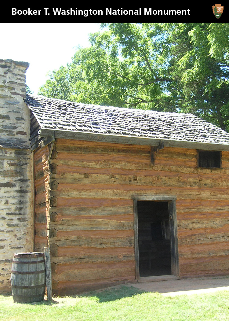 Booker T. Washington was born a slave in 1856. He lived in a log cabin that was a kitchen for the nearby “big house.” Booker, his brother John and sister Amanda slept upon a pallet placed on the cabin’s dirt floor. Their mother cooked over the fireplace for the family that lived in the “big house.”